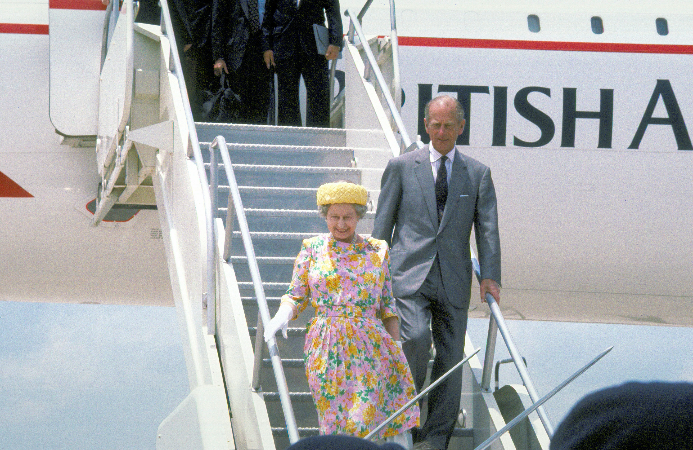 Queen Elizabeth II and her husband, Prince Philip, Duke of Edinburgh, disembark from a British Airways Concorde supersonic transport aircraft upon their arrival for a royal visit. Location: BERGSTROM AIR FORCE BASE, TEXAS (TX) UNITED STATES OF AMERICA (USA)